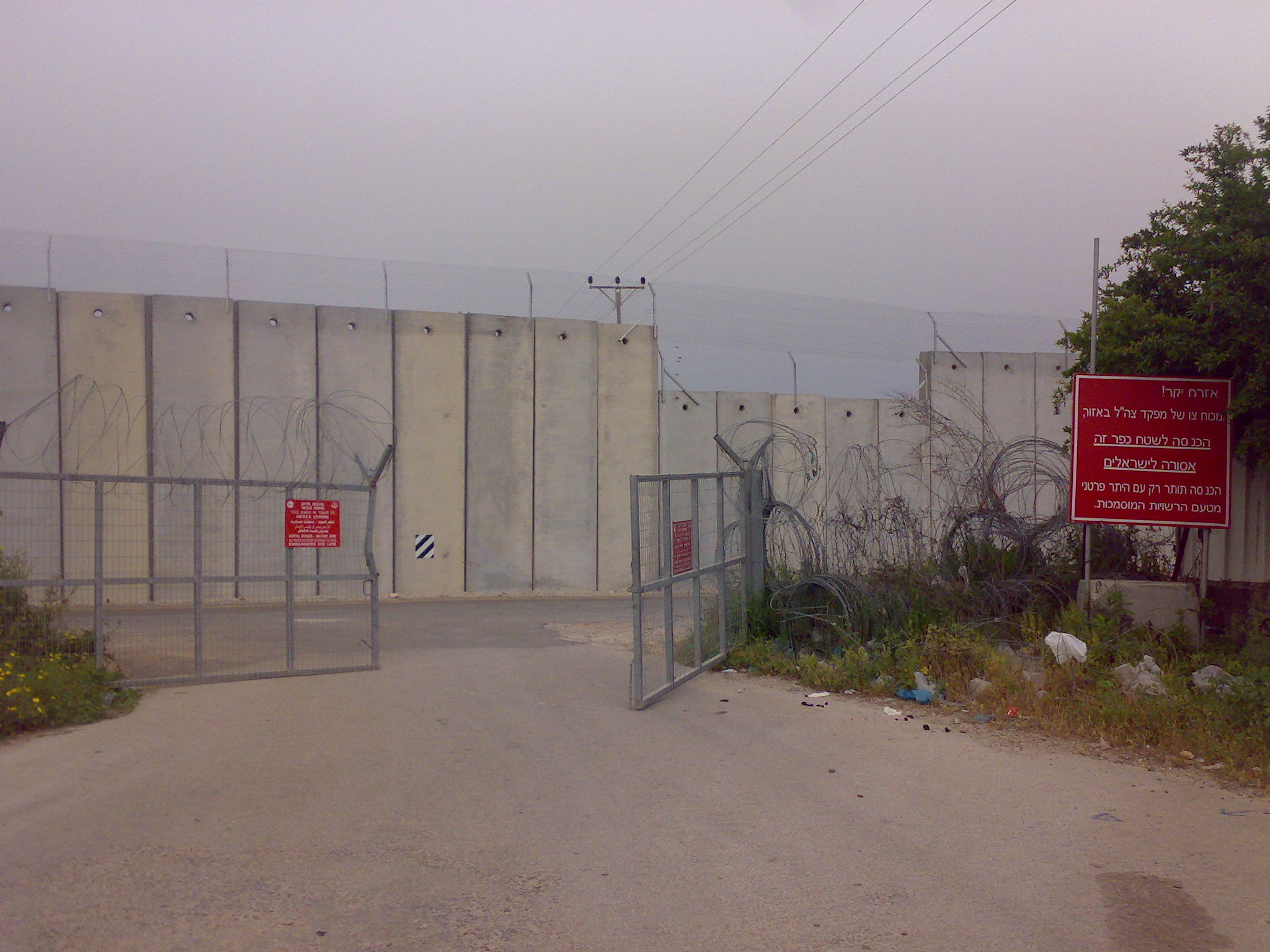 The separation barrier split Baqa el Gharbiya from its easter sister, Baqa el Sharbiyya, and left many worker in the eastern town umemployed.